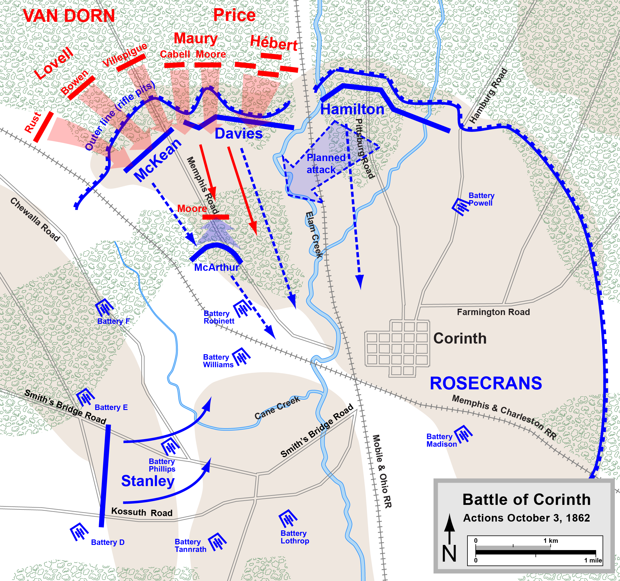 Map of the first day of the Second Battle of Corinth of the American Civil War. Drawn in Adobe Illustrator CS5 by Hal Jespersen.